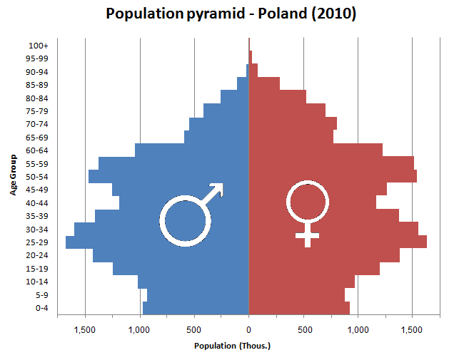 Population pyramid for Poland (2010), created using info from source - US Census Bureau